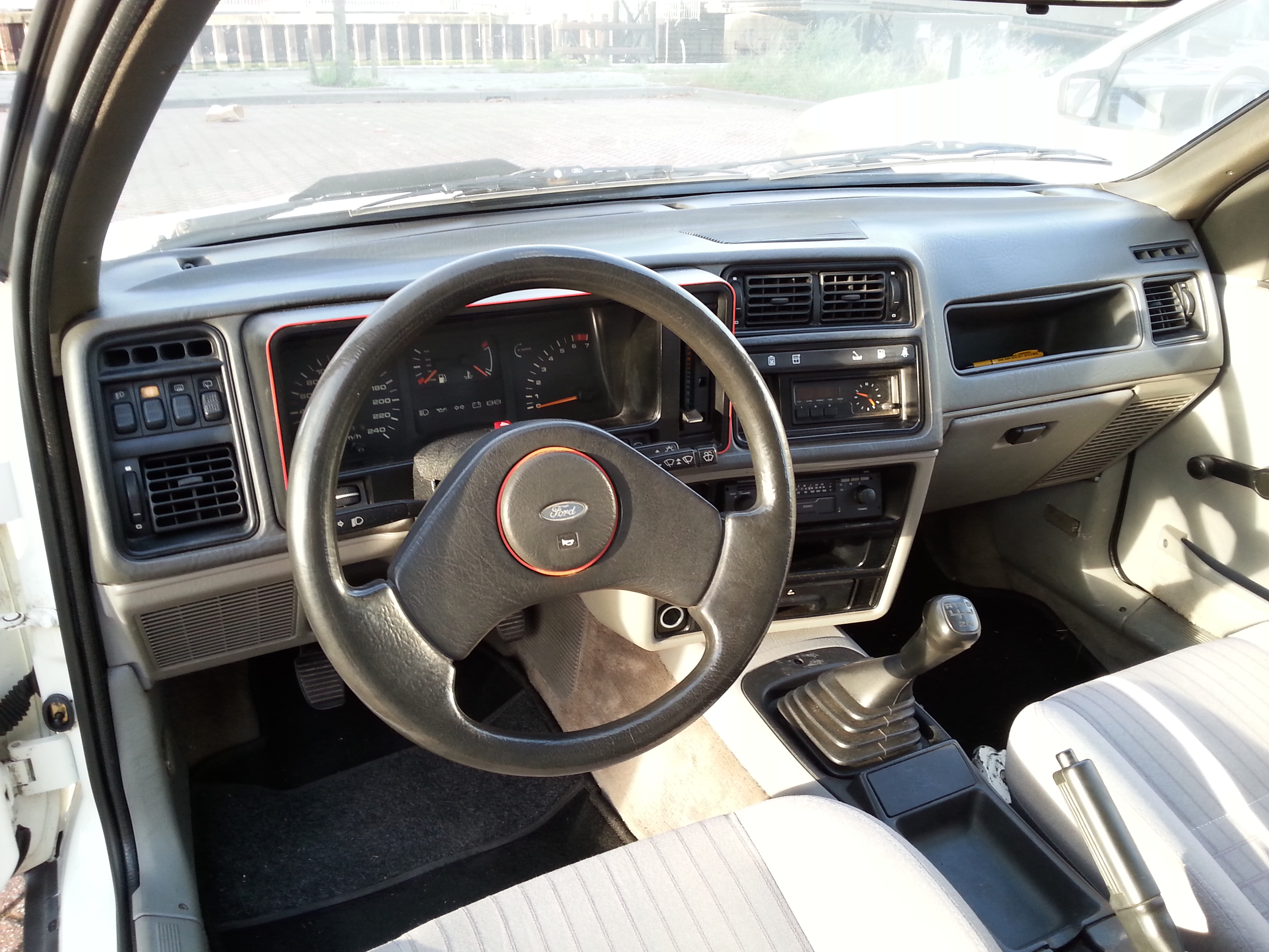 This is the dashboard of an 1984 Ford Sierra XR4i.